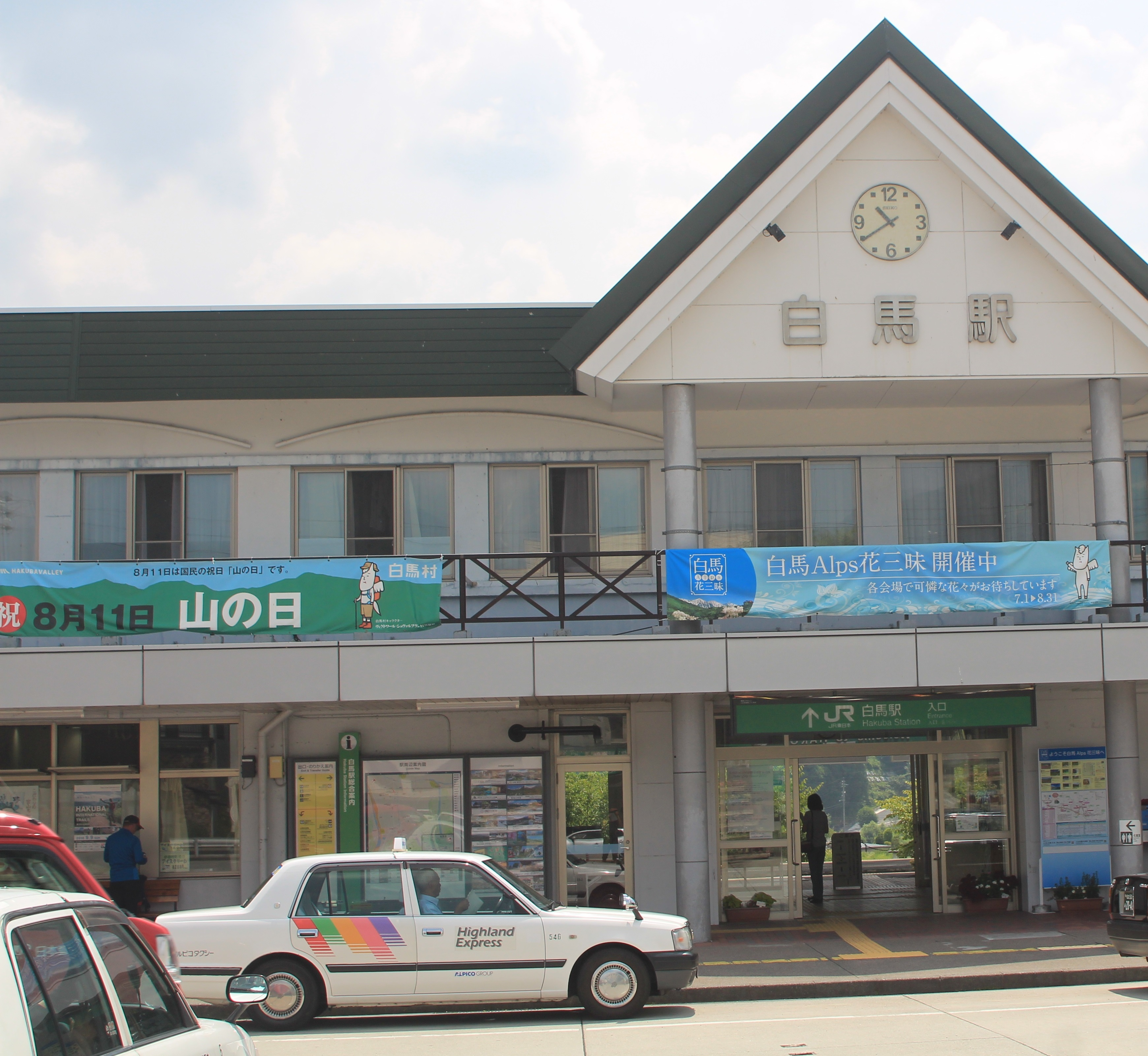 Hakuba Station on Ōito Line operated by East Japan Railway Company (JR East) in Hakuba Village, Nagano Prefecture, Japan.